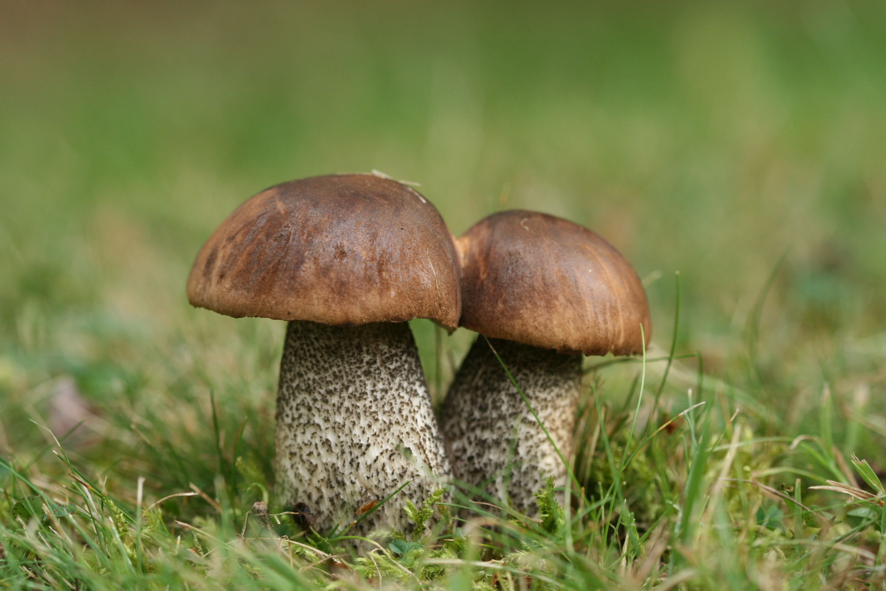 Birch bolete (Leccinum scabrum) under a birch, Hainaut, Belgium.